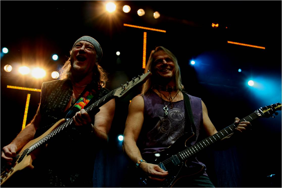 Deep Purple at Oslo Spektrum, Norway 2009